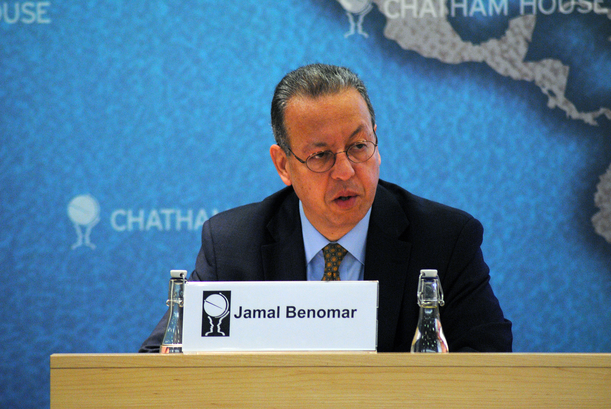 Friends of Yemen: Aid and Accountability, 6 March 2013